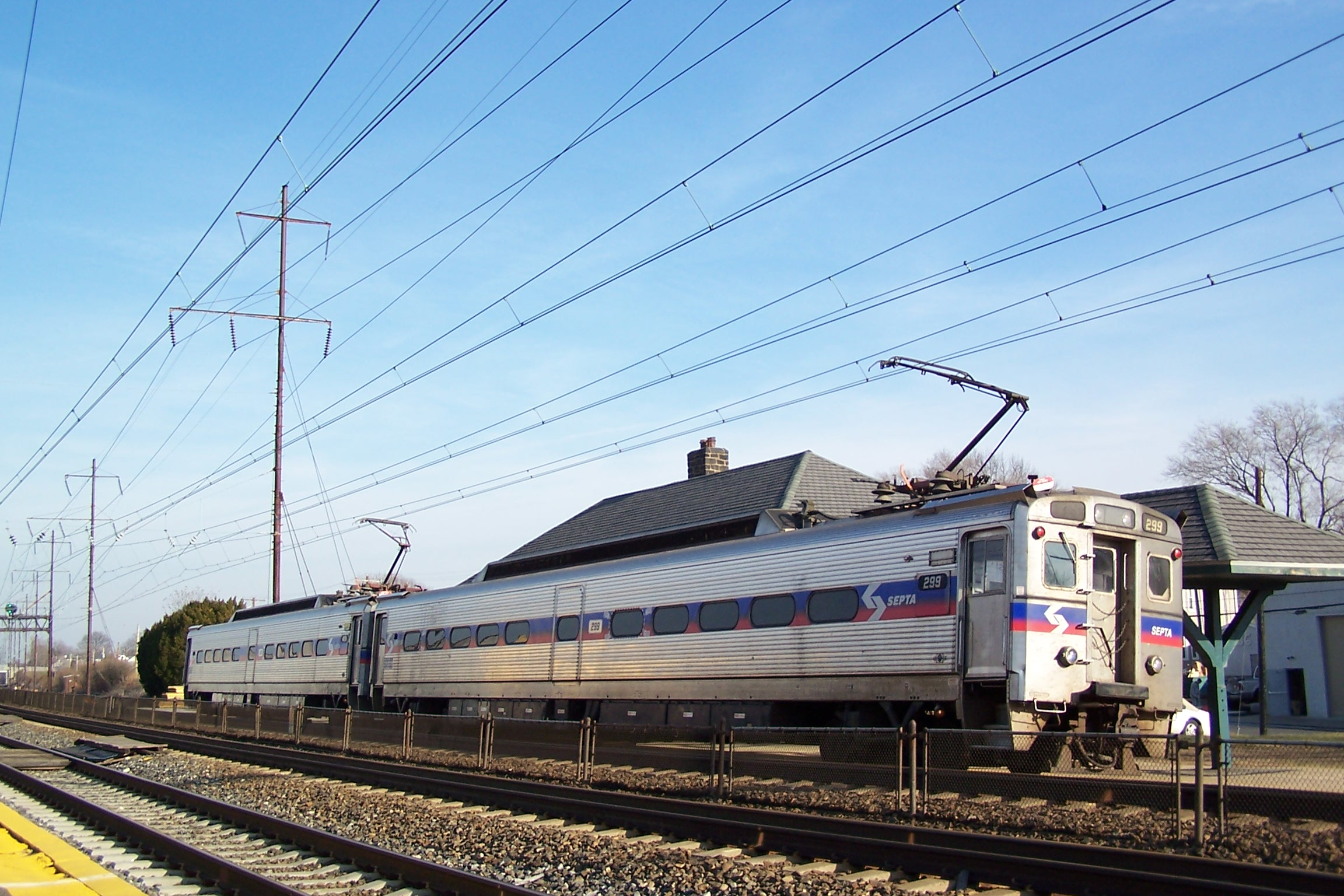 A SEPTA R2 commuter train seen on the Northeast Corridor south of Philadelphia, PA. The train is stopped at the Prospect Park-Moore station.